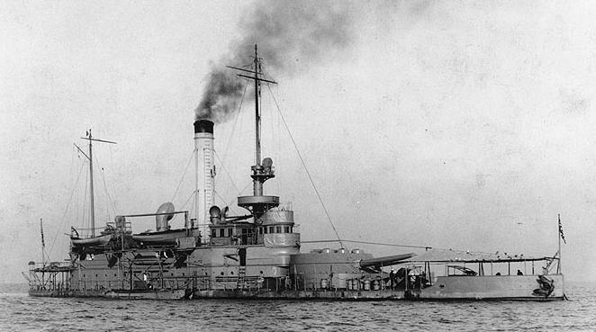 The USS Wyoming.